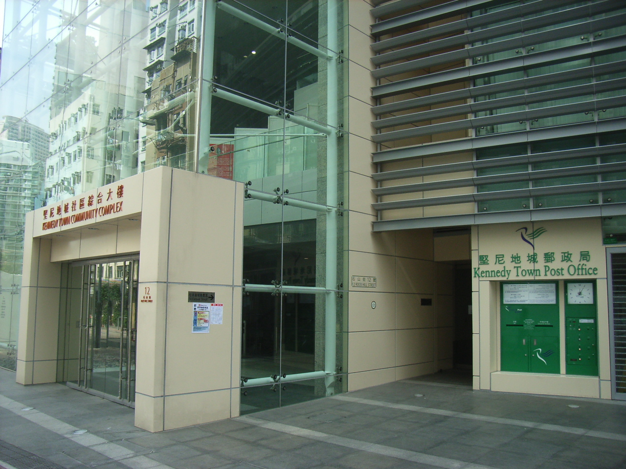 堅尼地城社區綜合大樓 (Kennedy Town Community Complex)，位處於zh:香港zh:西環zh:堅尼地城石山街.